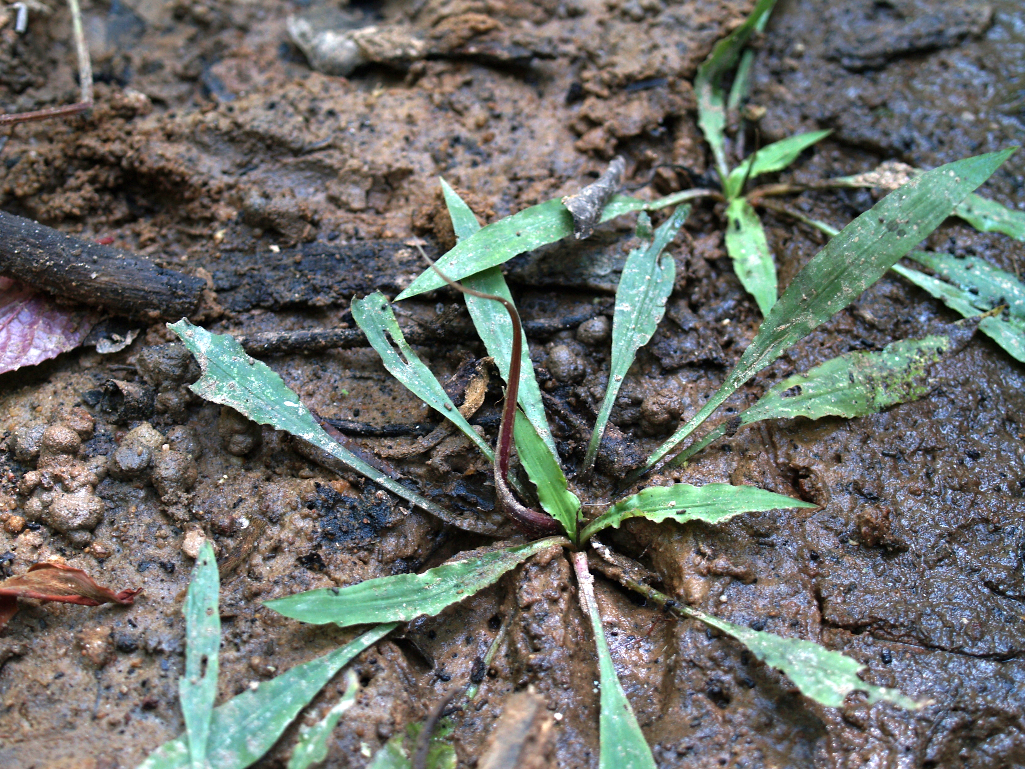 Yu Ito (2013d) Aquatic plant surveys in southwestern India. Bulletin of Water Plant Society, Japan 100: 64-68.